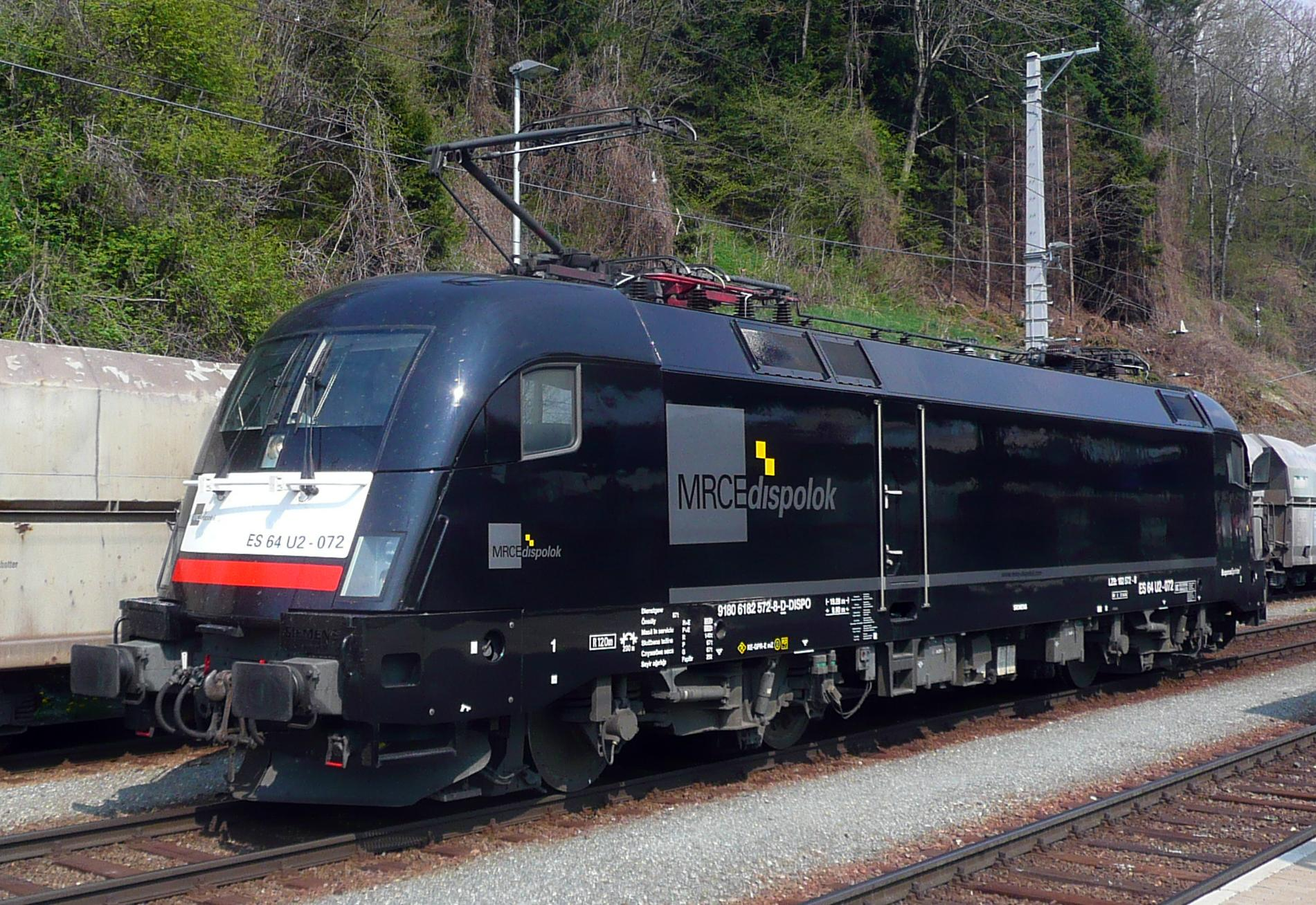 Mitsui Rail Capital Europe ES64U2-072, full number 91 80 9 182 572-8 D-DISPO, built 2004 by Siemens, in Leoben Hbf